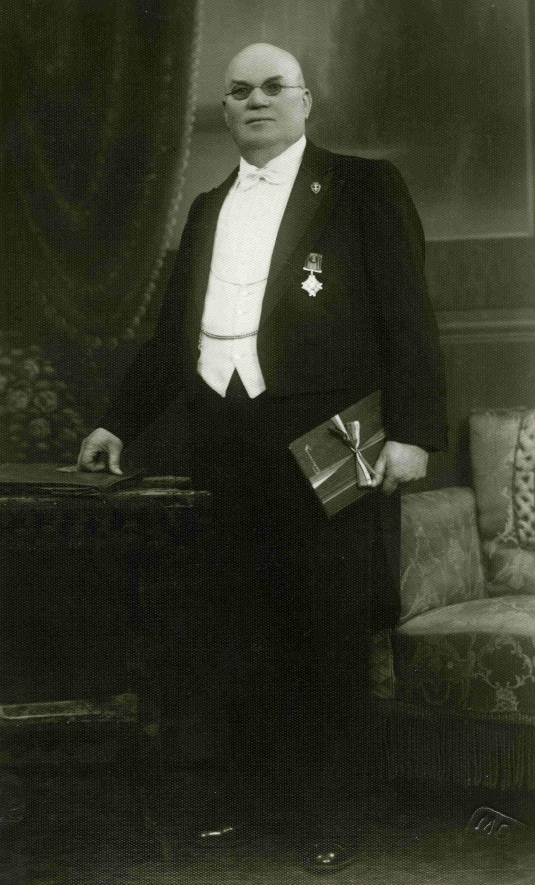 Liudvikas Jakavicius-Lietuvanis, the largest writer and private publisher in the Lithuania of interwar.